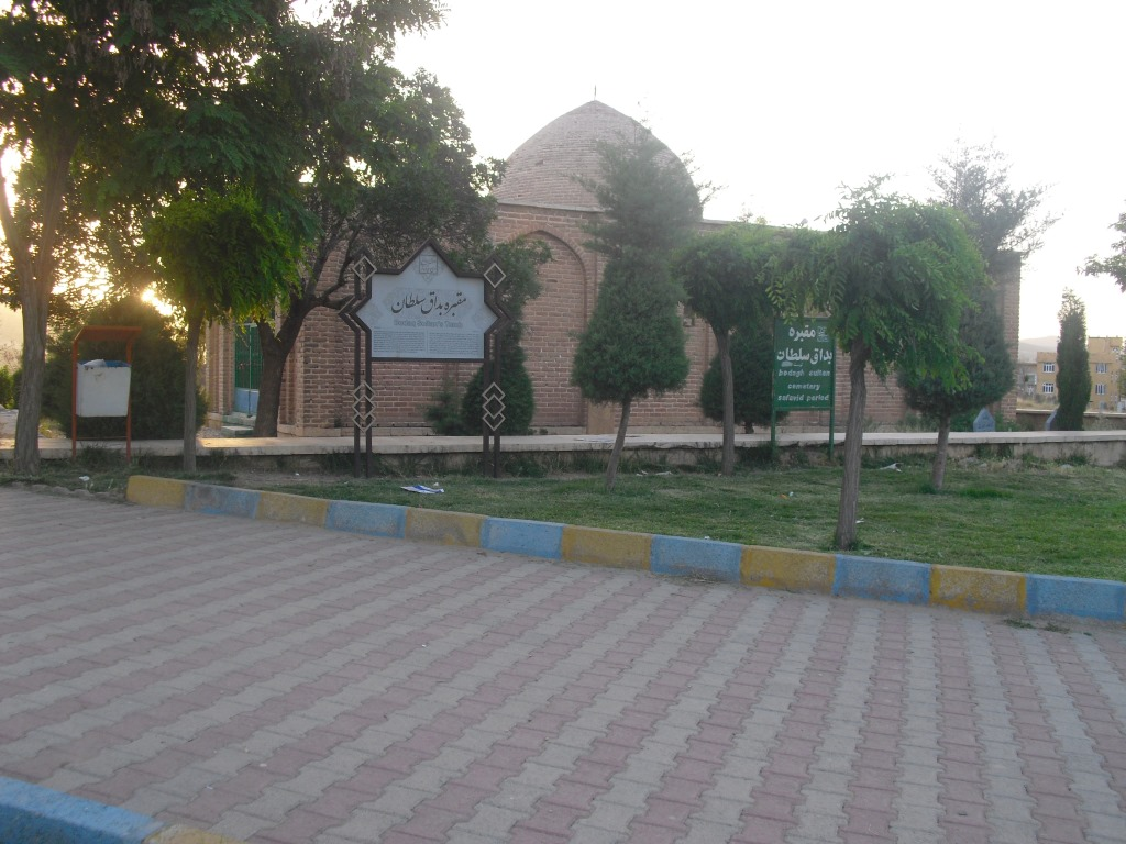 Bodagh Sultan Tomb